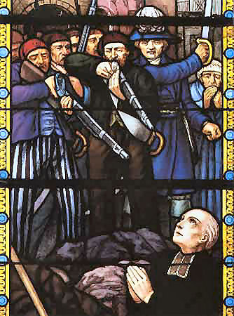 Stained glass window of the church in Chambretaud, presenting the assassination of abbot François Nicolas by the French republican soldiers